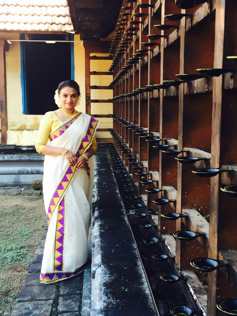 This file includes an image of Malayalam actress [Krishna Praba] at the Flash movie photoshoot